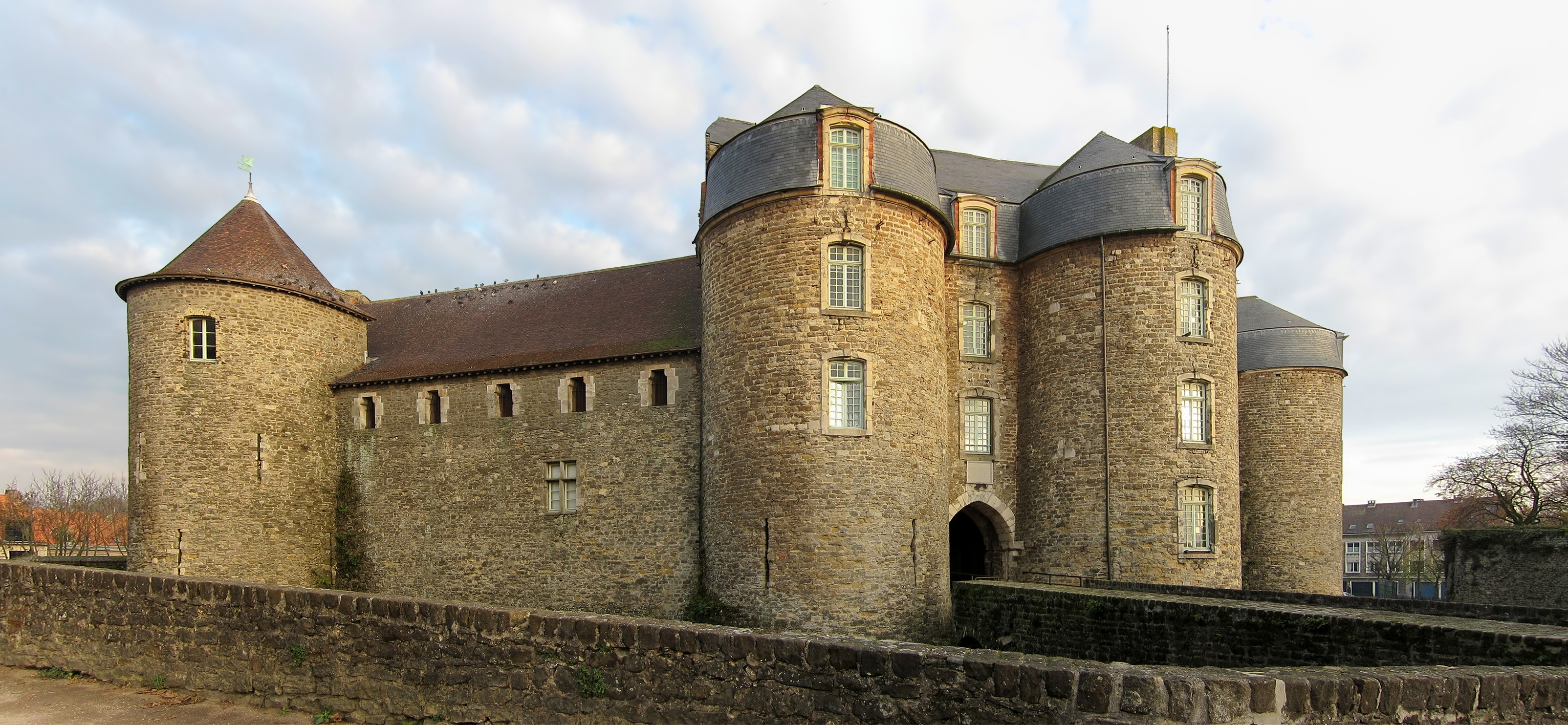 The Castle Museum of Boulogne-sur-Mer (Pas-de-Calais, France).